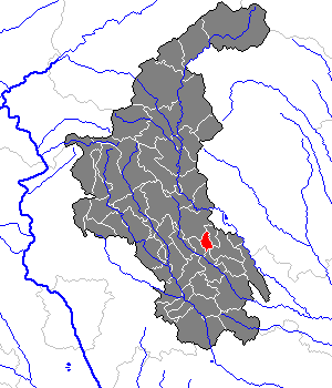 This map shows the area of the Gemeinde (municipality) Reichendorf in the Bezirk (district) Weiz, Styria, Austria.